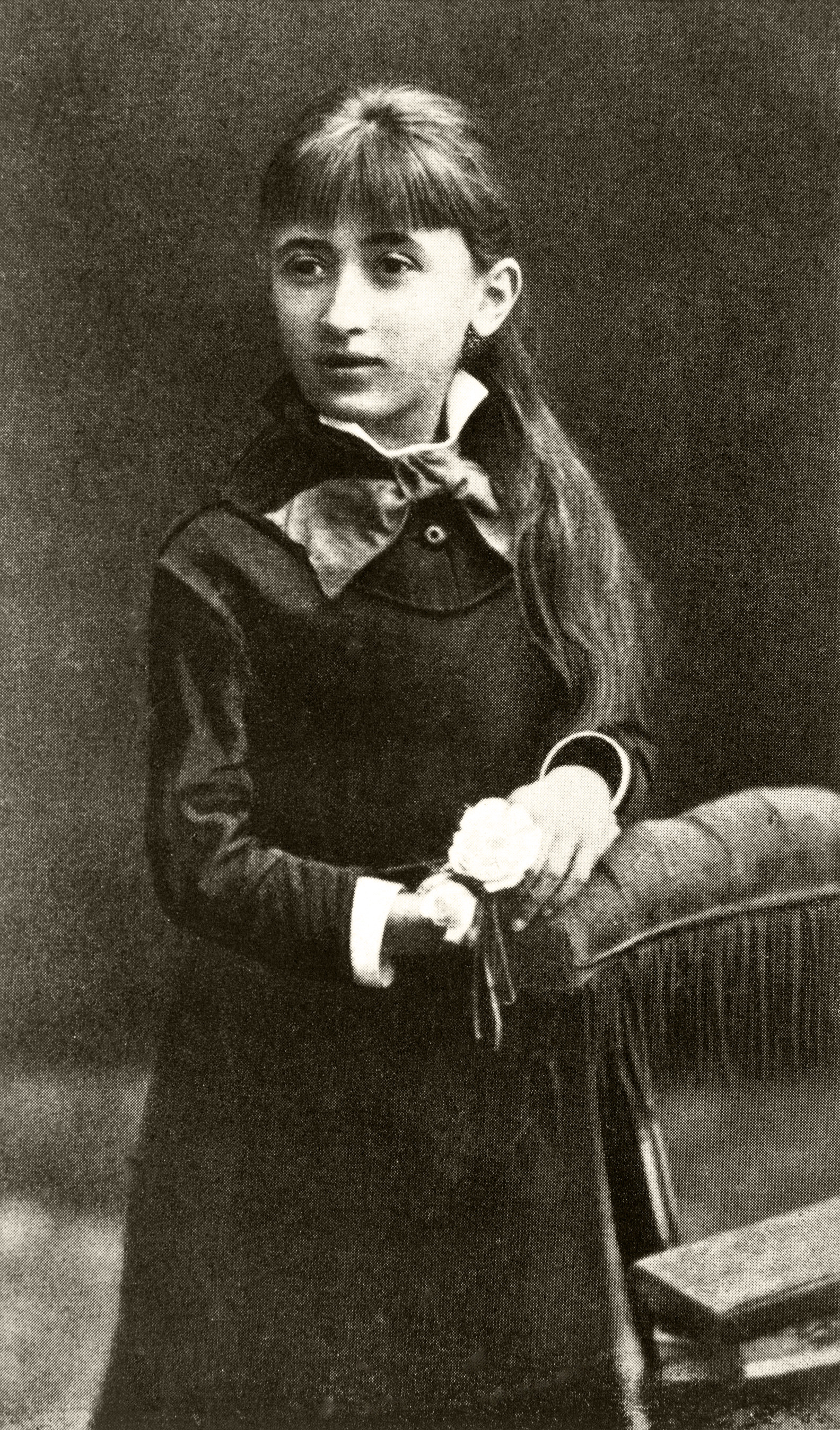 Picture of Rosa Luxemburg, age 12